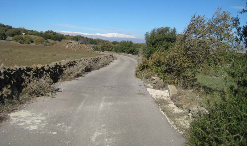 Syrian village of Beer Ajam.